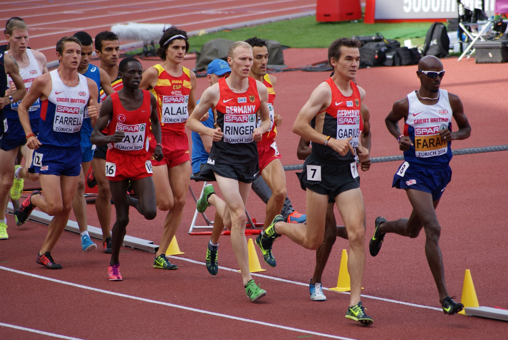 5000m men final European Athletics Championships in Zürich 2014 : Richard Ringer (GER), Arne Gabius (GER), Mo Farah (GBR)